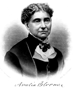 Public relations portrait of Amelia Bloomer as used in the History of Woman Suffrage by Susan B. Anthony and Elizabeth Cady Stanton, Volume I, published in 1881.